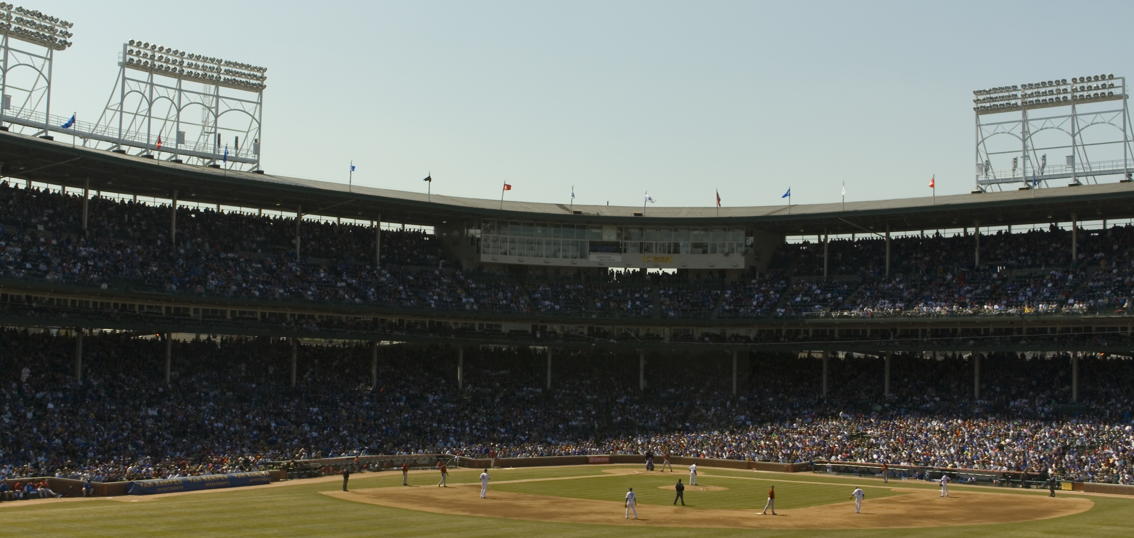 Description See the original, Wrigley Right Center.jpgSource Own workAuthor RMelon (talk) 23:44, 6 April 2008 . . RMelon . . 3,886×1,844 (3.11 MB) See the original, Wrigley Right Center.jpg